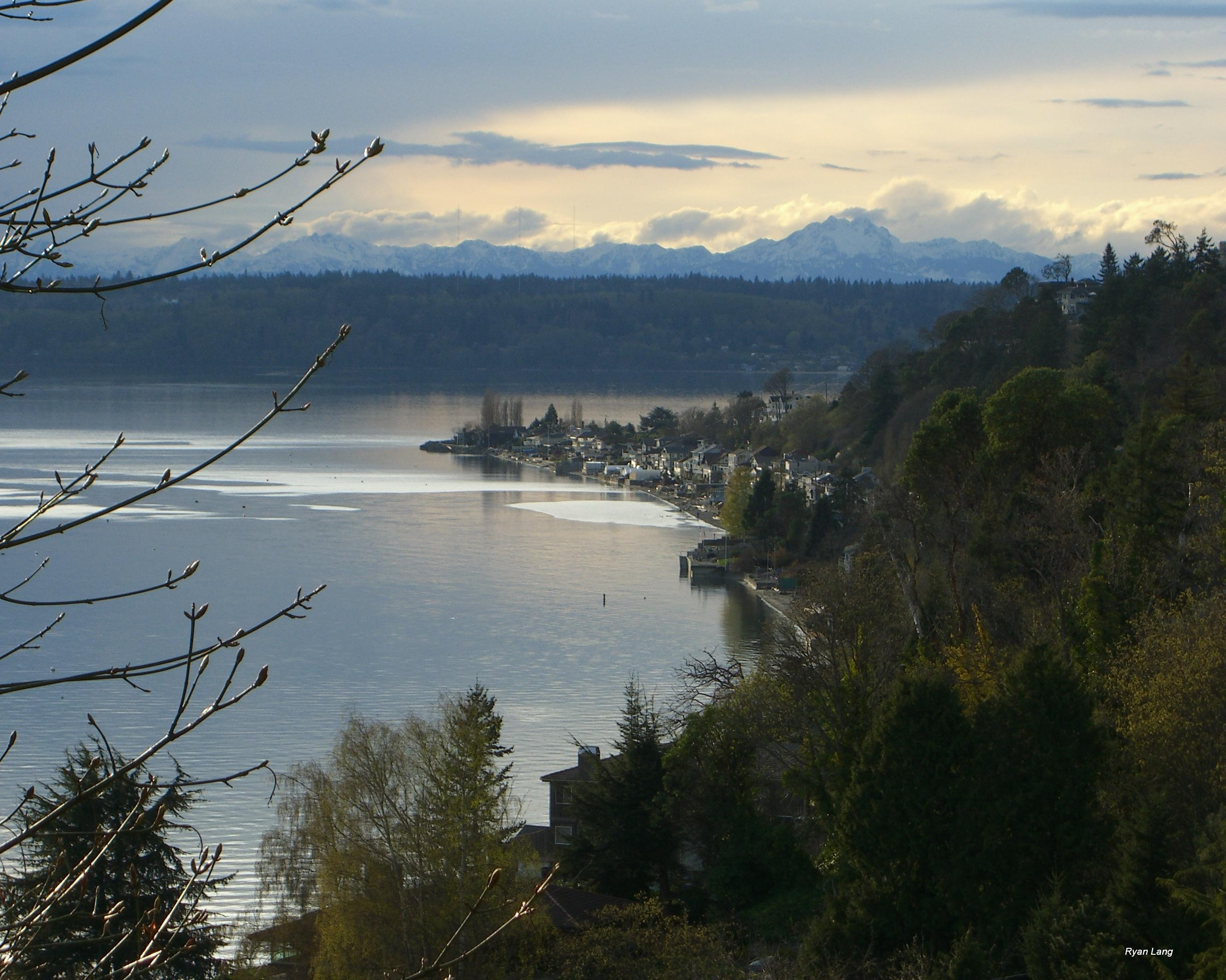 Author: Ryan Lang. Casio Exilim 7.2 megapixels. Three Tree Point in Burien, WA at Sunset w/Olympic Mountains. March 31, 2006